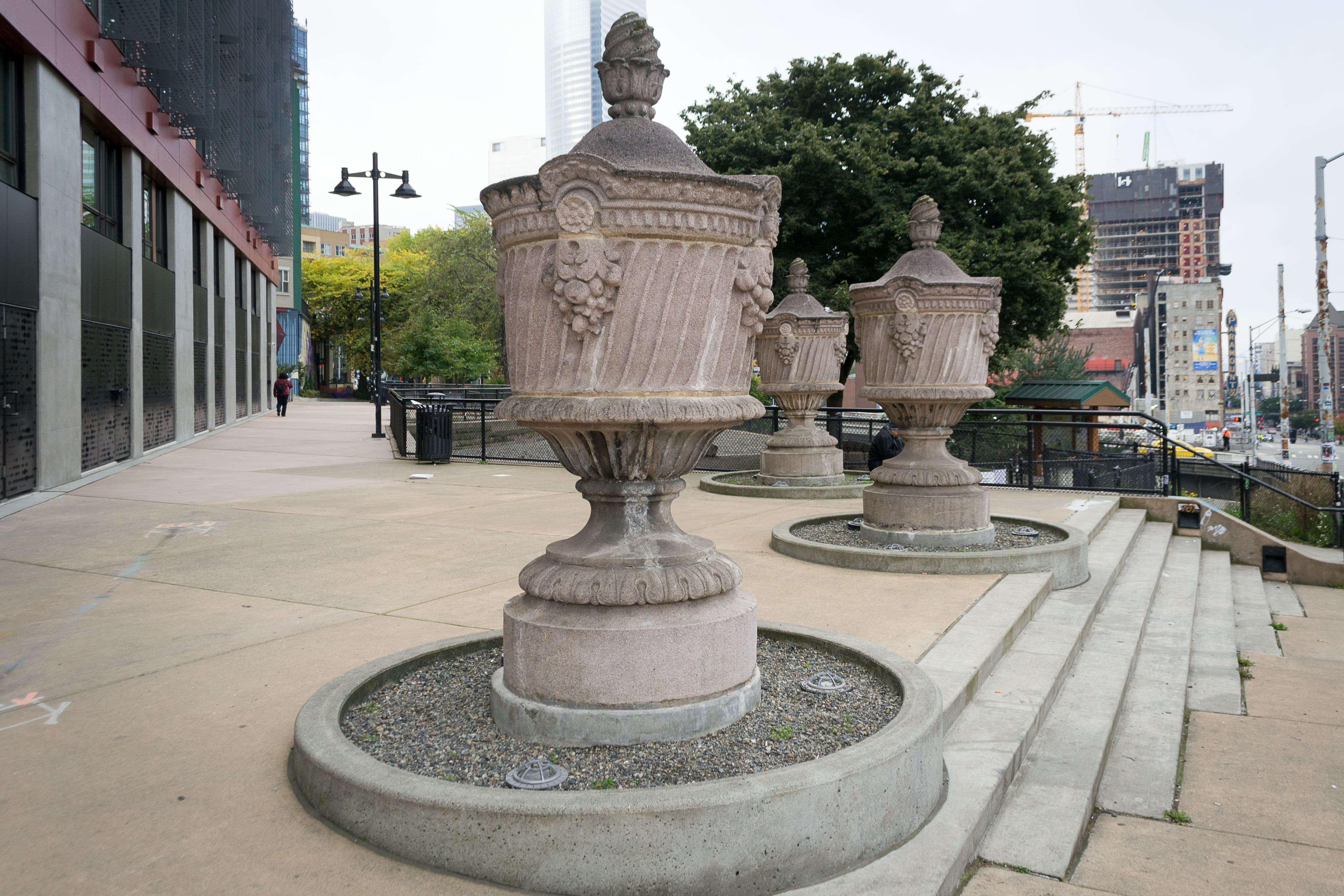 Urns salvaged from Seattle's Music Hall Theatre are now part of Plymouth Pillars Park